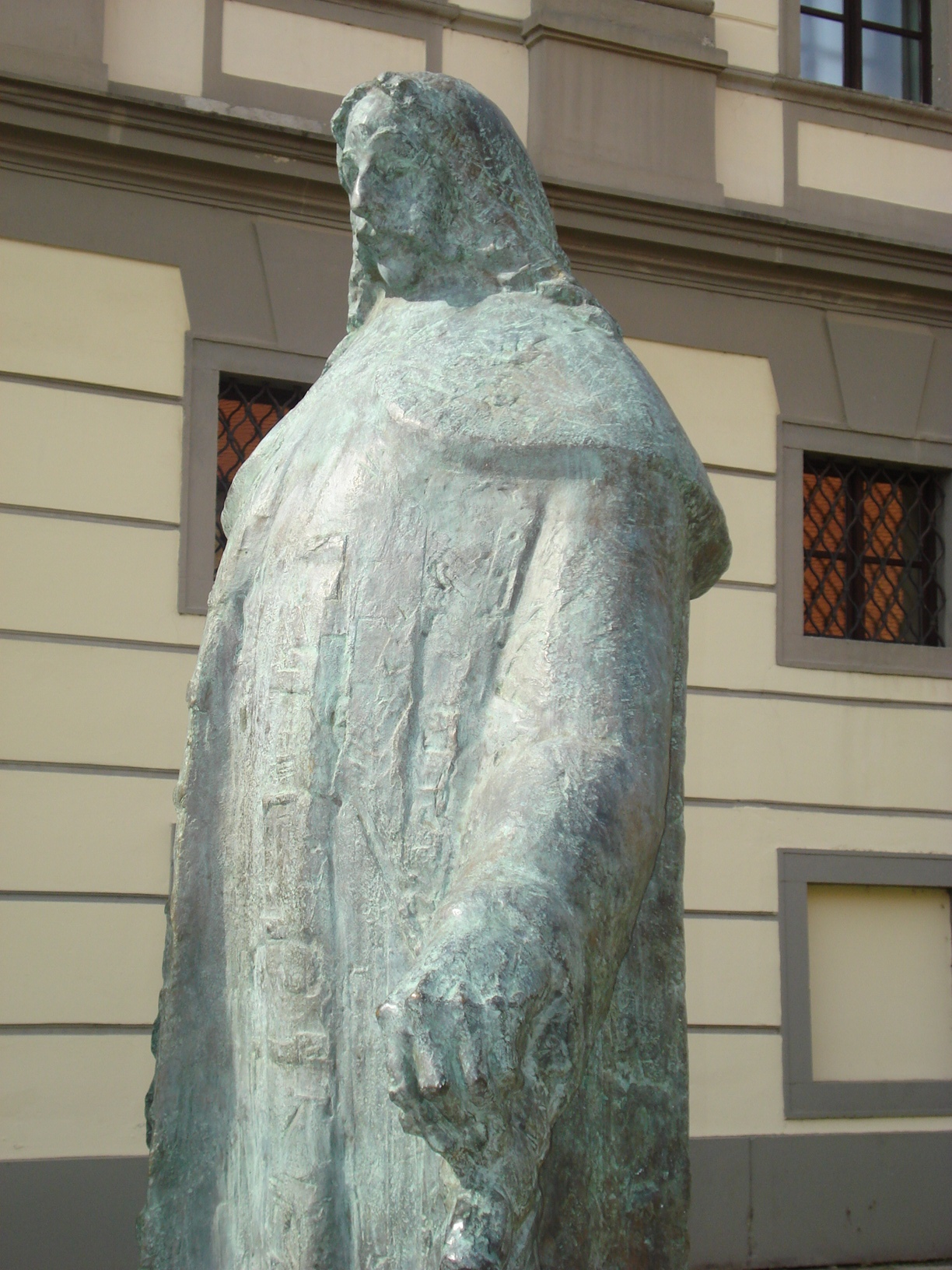 Francis Christopher Frankopan statue in Čakovec